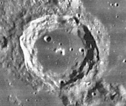 Campanus lunar crater - image LO-IV-131-h3